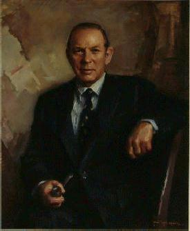 James Day Hodgson, U.S. Secretary of Labor, 1970–73 evrik (James D. Hodgson)